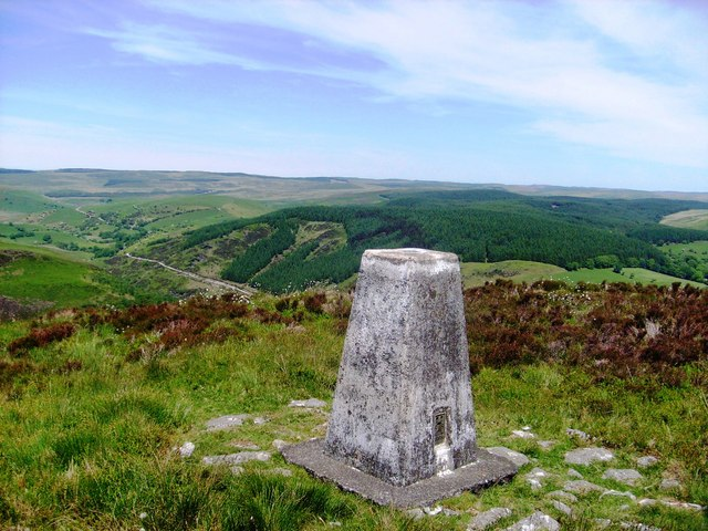 Crugiau Merched trig and Cefn Branddu A Marilyn summit with a fine ancient cairn